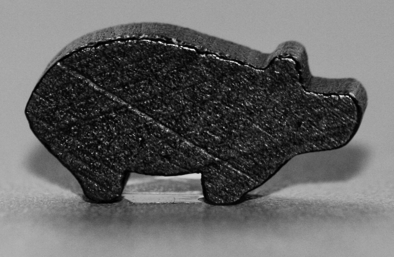 Animal from the boardgame Agricola